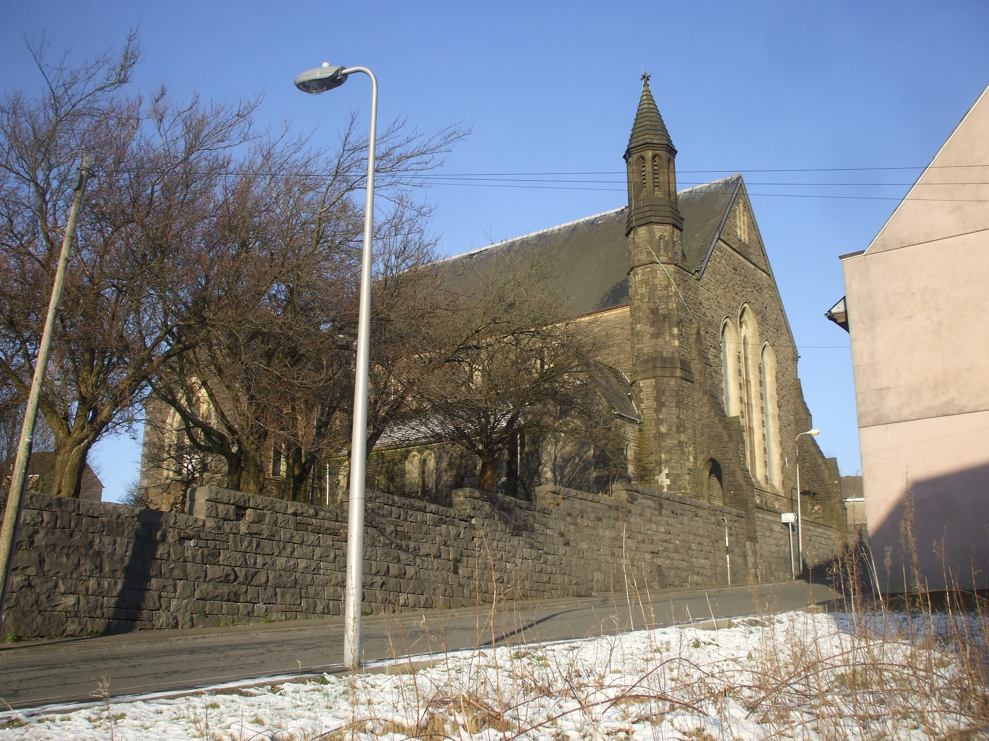 St John's Church, Dowlais nr Merthyr Tydfil, a now disused late nineteenth century church, built for the local ironworks manager Sir John Guest.